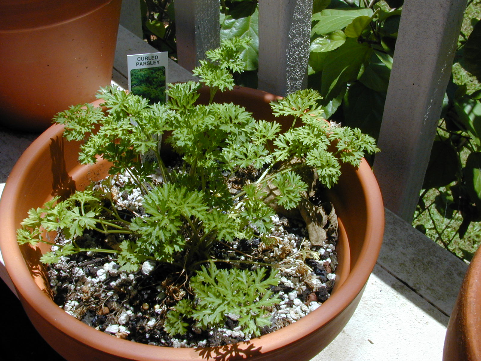 Petroselinum crispum (in pot). Location: Maui, Makawao